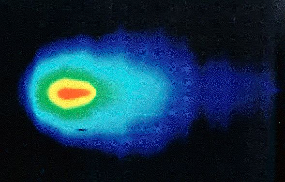 Comet IRAS-Araki-Alcock, viewed in infrared light